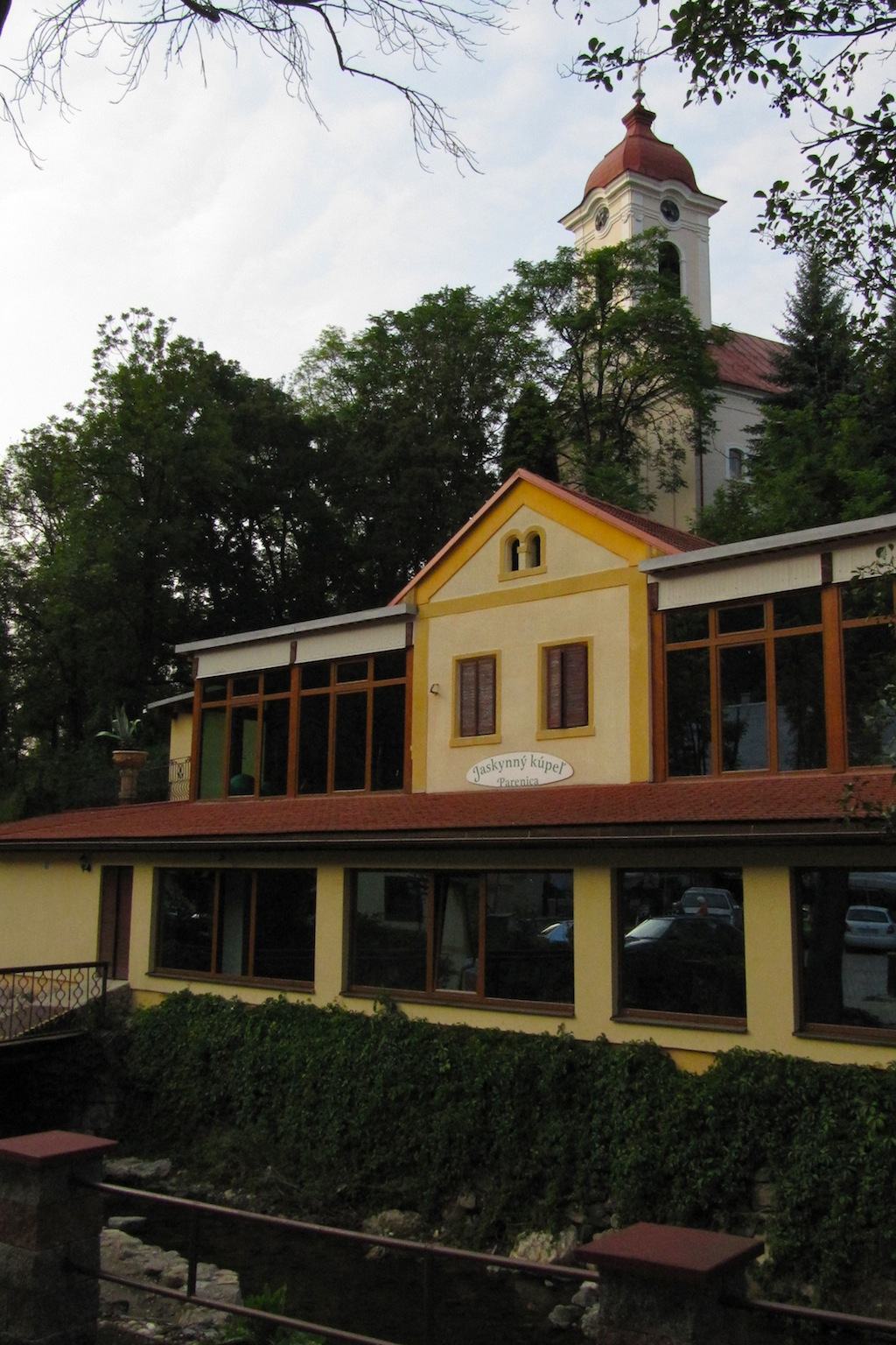 Sklené Teplice: Church and Thermal Baths